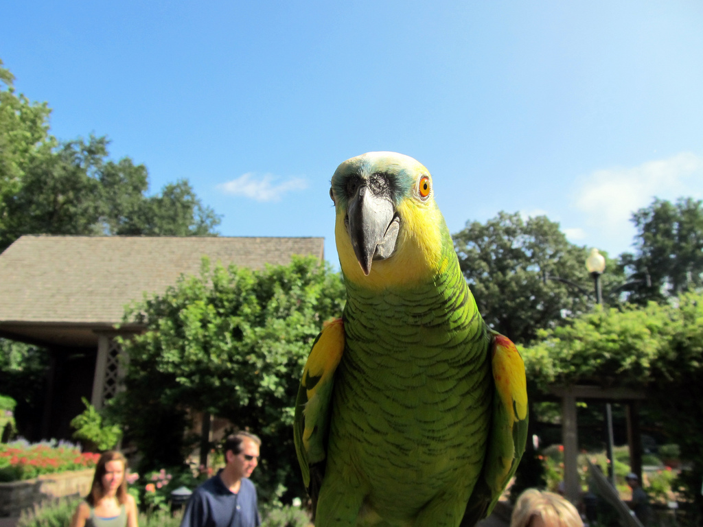 A Blue-fronted Amazon at Henry Doorly Zoo, Omaha, Nebraska, USA.